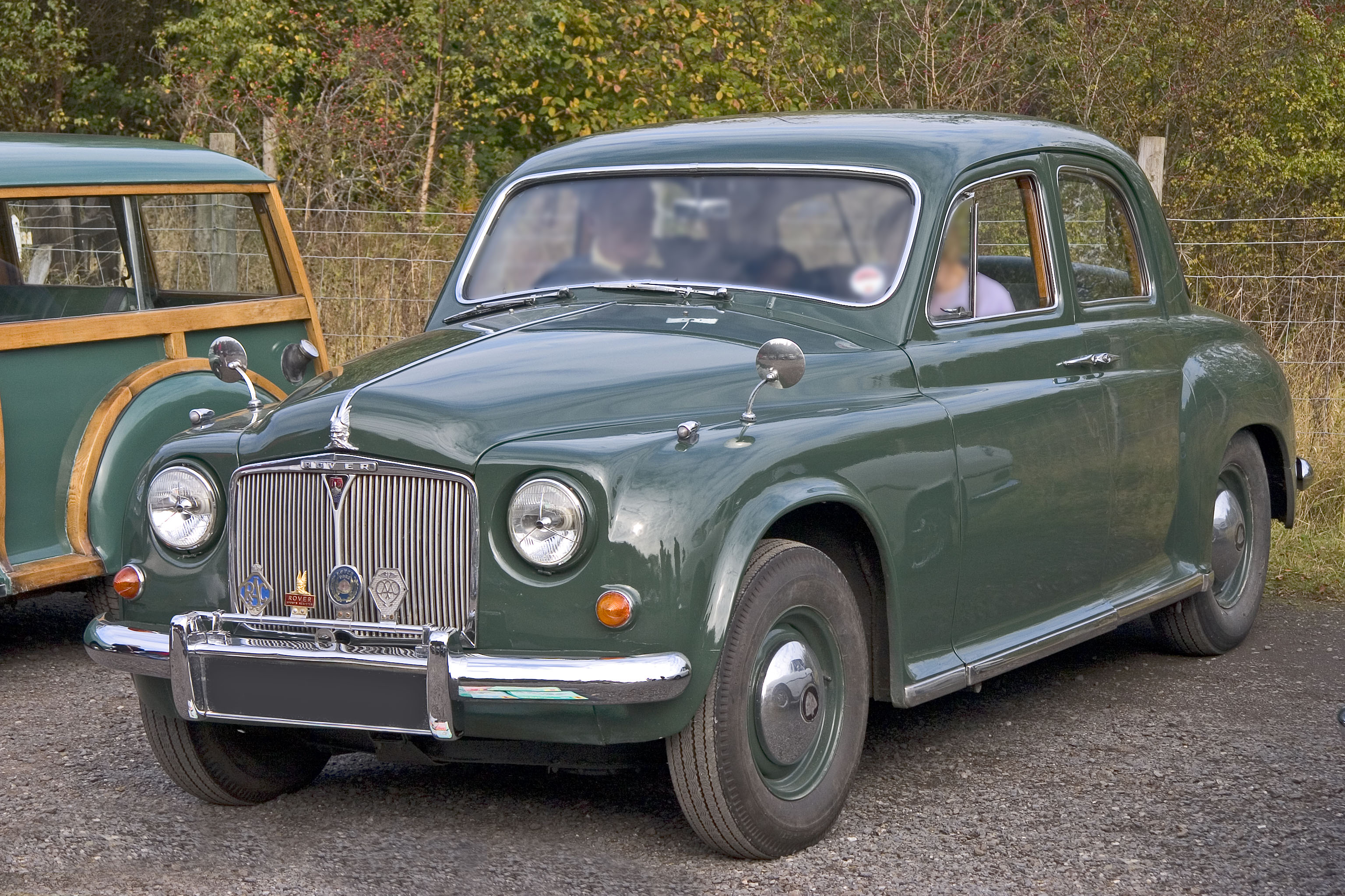 Rover 75 MkII (P4). The Rover 75 was launched in 1949 with 2103cc engine, and in 1955 it was given a 2230cc engine. The 'cyclops' grille was changed in 1952 to the one with low sidelamps seen here.